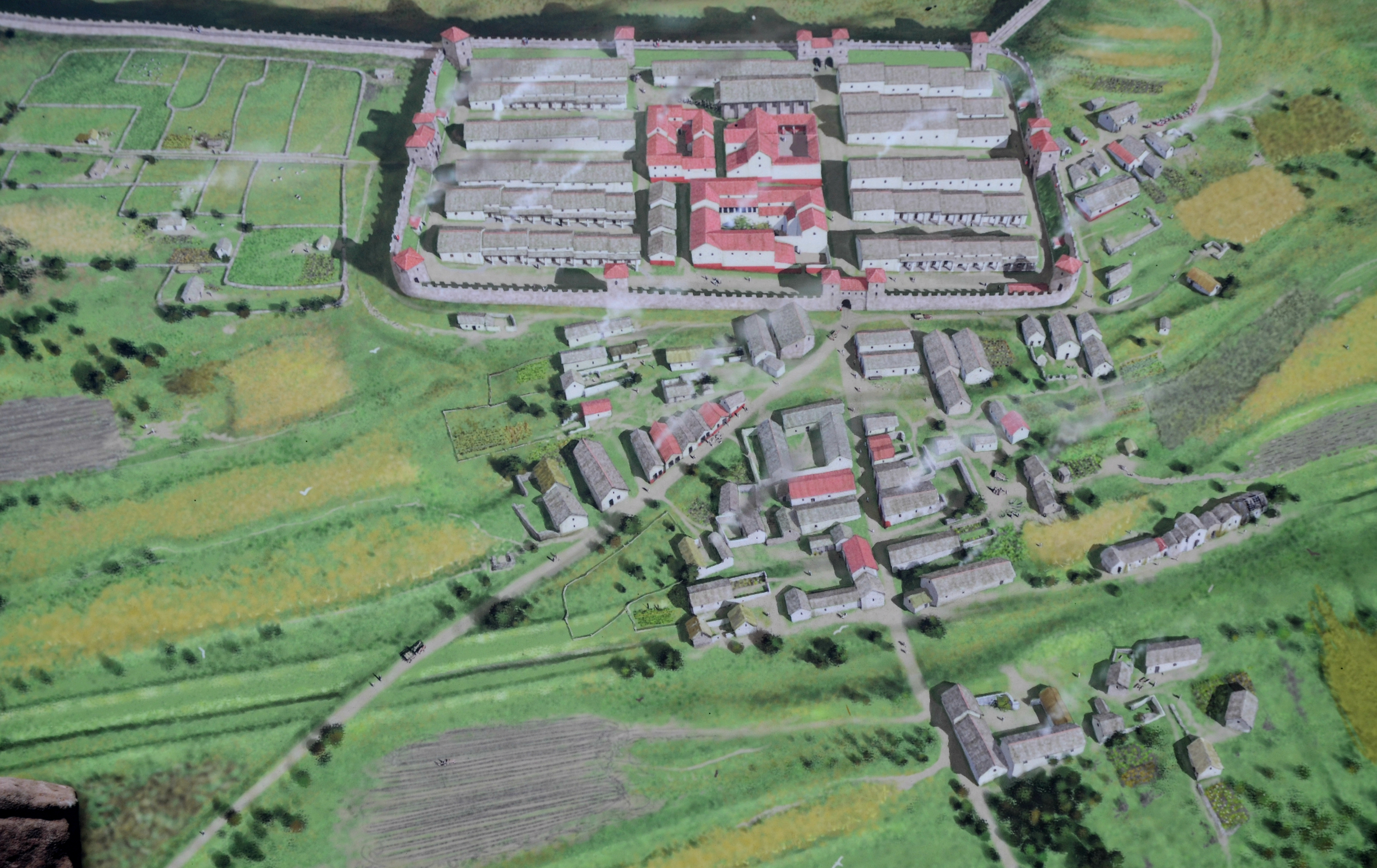 Housesteads Roman Fort (Vercovicium)